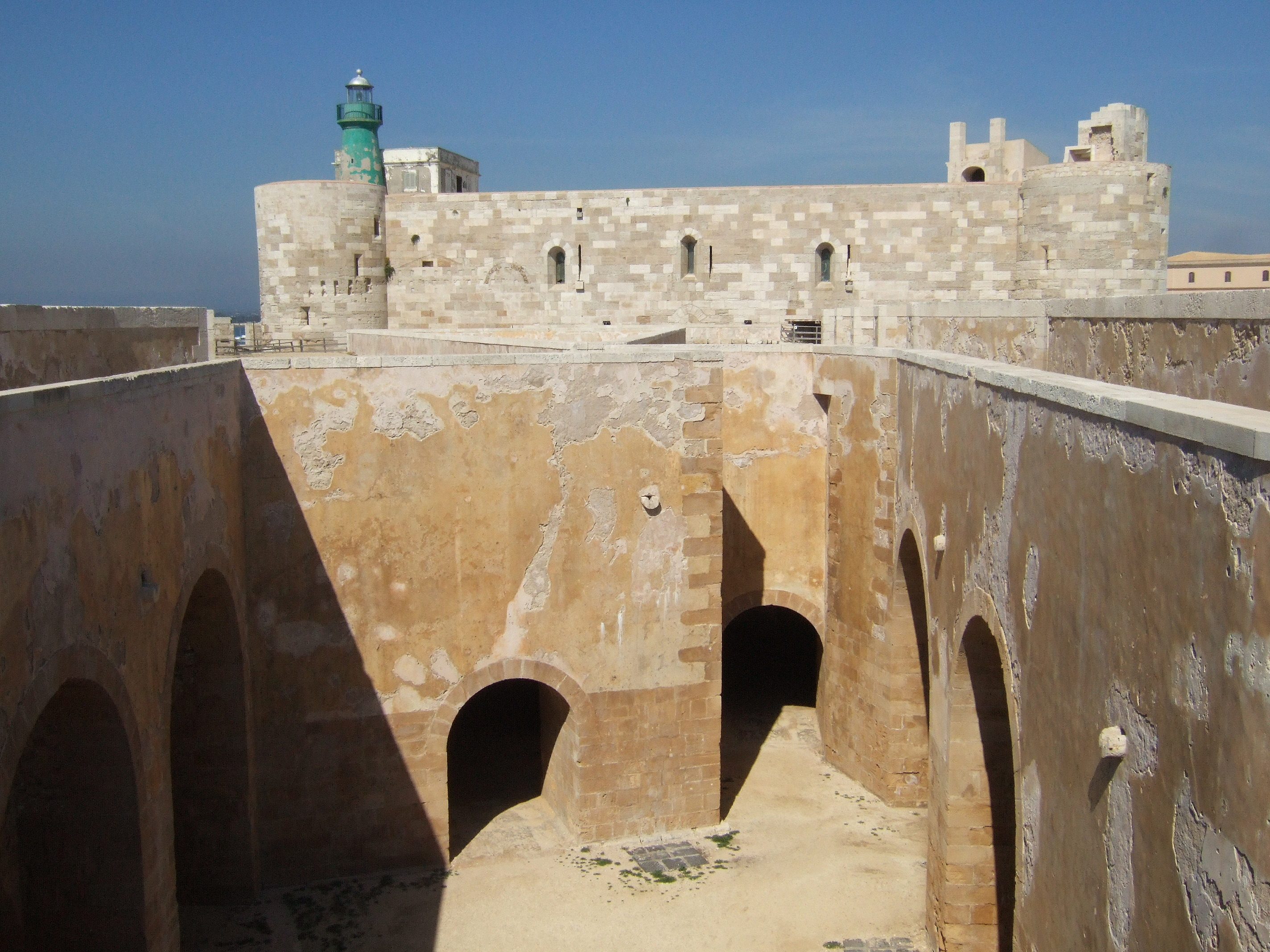 View of the interior of the fort of Castello Maniace in Syracuse, Ortigia, Sicily.